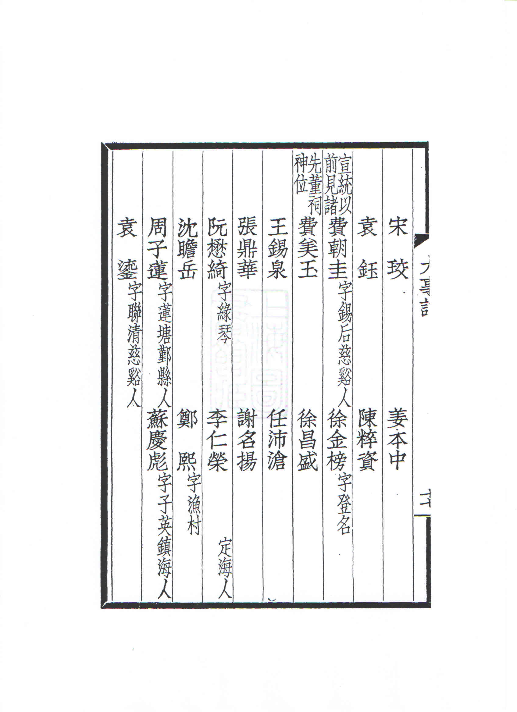 List of Si-Ming Guild Directors (page 4)